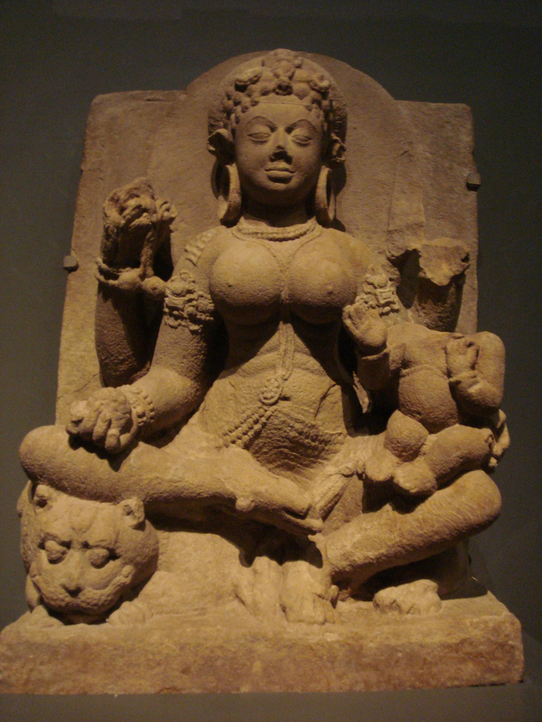 India, Bihar, Shahabad District, South Asia The Jain Goddess Ambika, 6th-7th century Sculpture; Stone, Sandstone, 27 x 18 x 10 in. (68.58 x 45.72 x 25.4 cm) Purchased with funds provided by Robert H. Ellsworth in honor of Dr. Pratapaditya Pal (M.90.165) Wikipedia Loves Art at the Los Angeles County Museum of Art This photo of item # M.90.165 at the Los Angeles County Museum of Art was contributed under the team name "ARTiFACTS" as part of the Wikipedia Loves Art project in February 2009. Los Angeles County Museum of Art The original photograph on Flickr was taken by sisleyceli—please add a comment to the original Flickr page whenever a use has been made on Wikipedia or another project. Project galleries on Flickr: this institution, this team